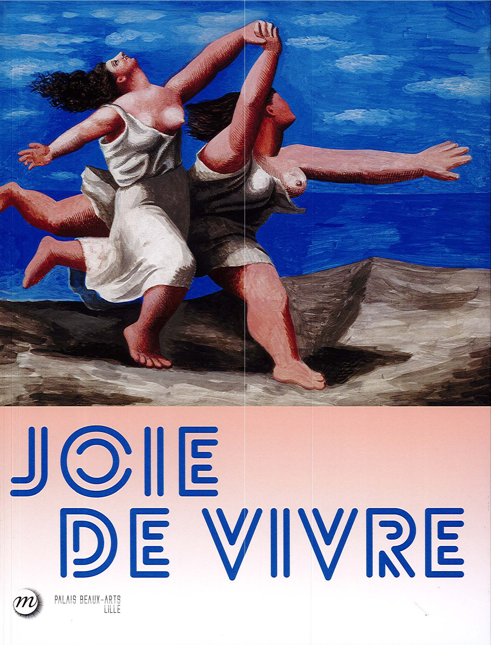 The book of the exhibition "Joie de vivre" which took place at the museum from the 25th of september 2015 to the 17th of january 2016.